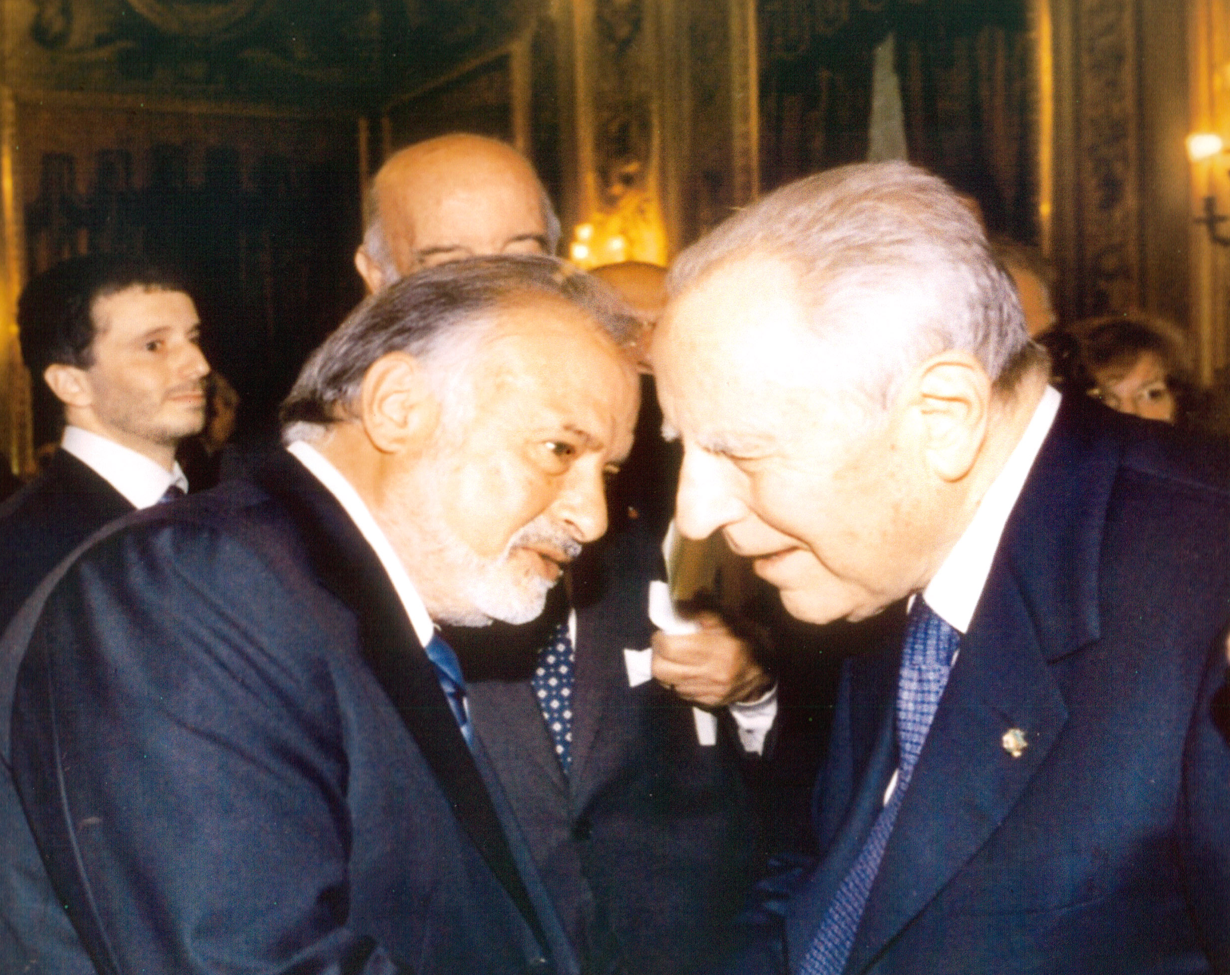 Vittorio Paravia incontra l'ex Presidente della Repubblica Carlo Azeglio Ciampi